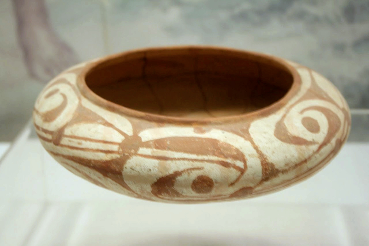 Painted bowl, Dawenkou Culture, 3500 BCE. Nanjing Provincial Museum